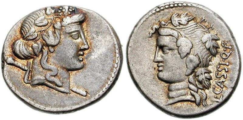 L. Cassius Q.f. Longinus. 75 BC. AR Denarius (18mm, 4.07 g). Head of Bacchus right wearing ivy wreath, thyrsus over shoulder / Head of Libera left wearing wreath of vine leaves and grape cluster. Crawford 386/1; Sydenham 779; Cassia 6. Good VF, lightly toned with some golden toning around the devices.